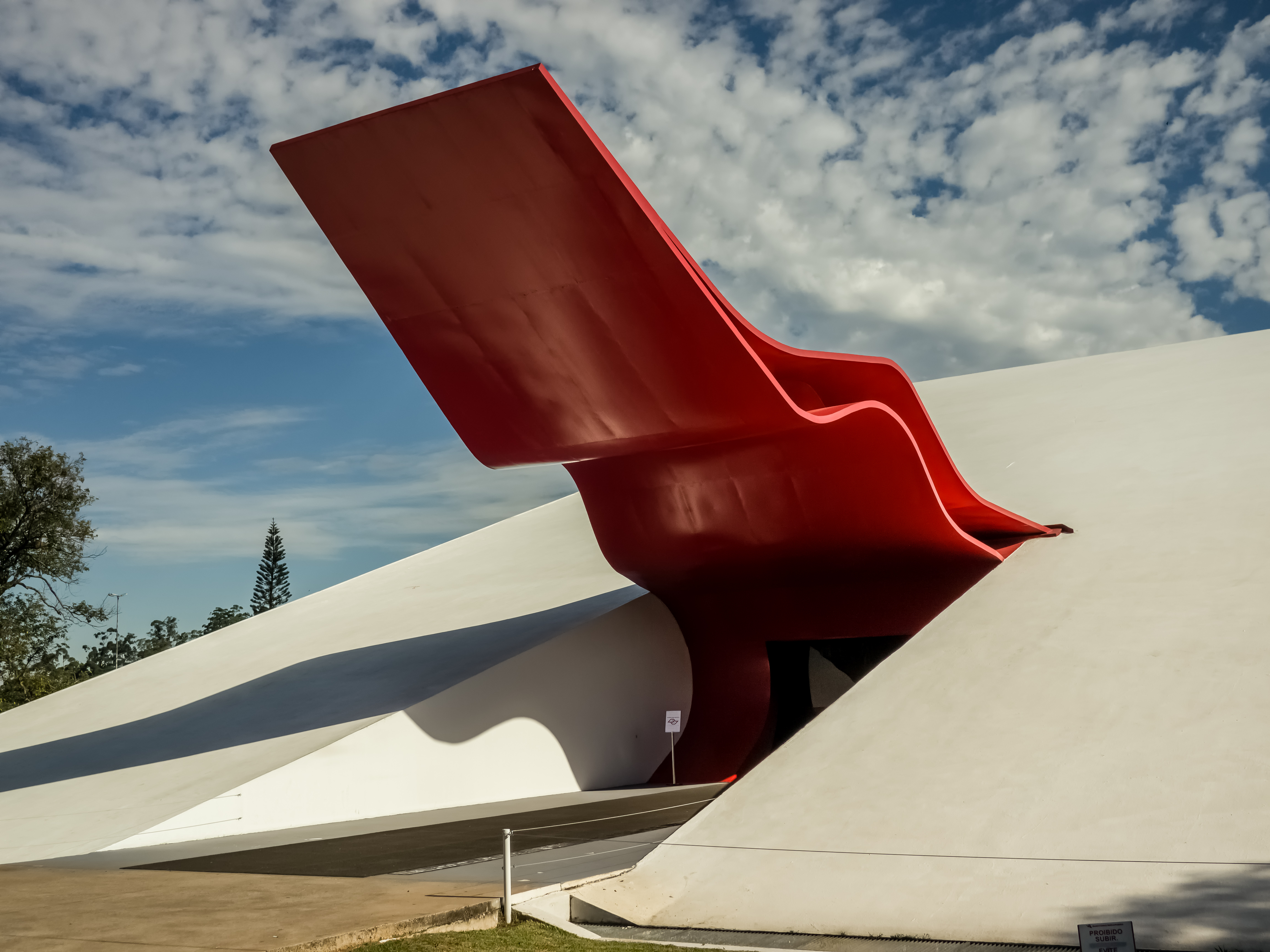 Entrance of the Ibirapuera Auditorium in São Paulo